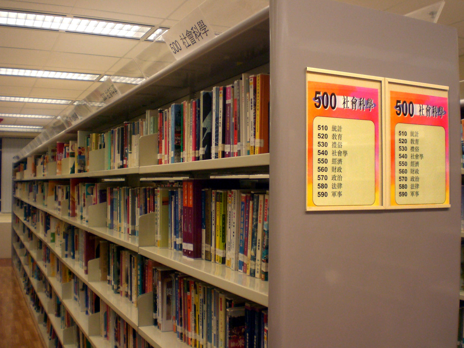 香港島灣仔軒尼詩道zh:駱克道公共圖書館